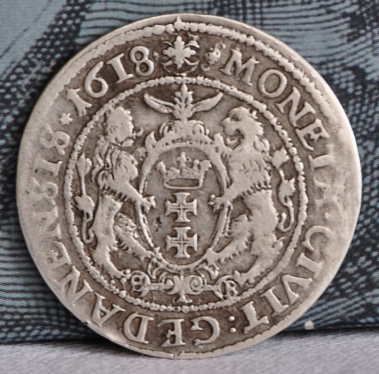 Revers of the "Ort" coin with Gdańsk city COA , Gdańsk Mint, 1618